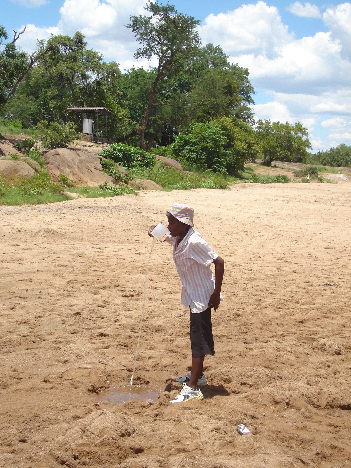 Water supply, Maranda, Zimbabwe